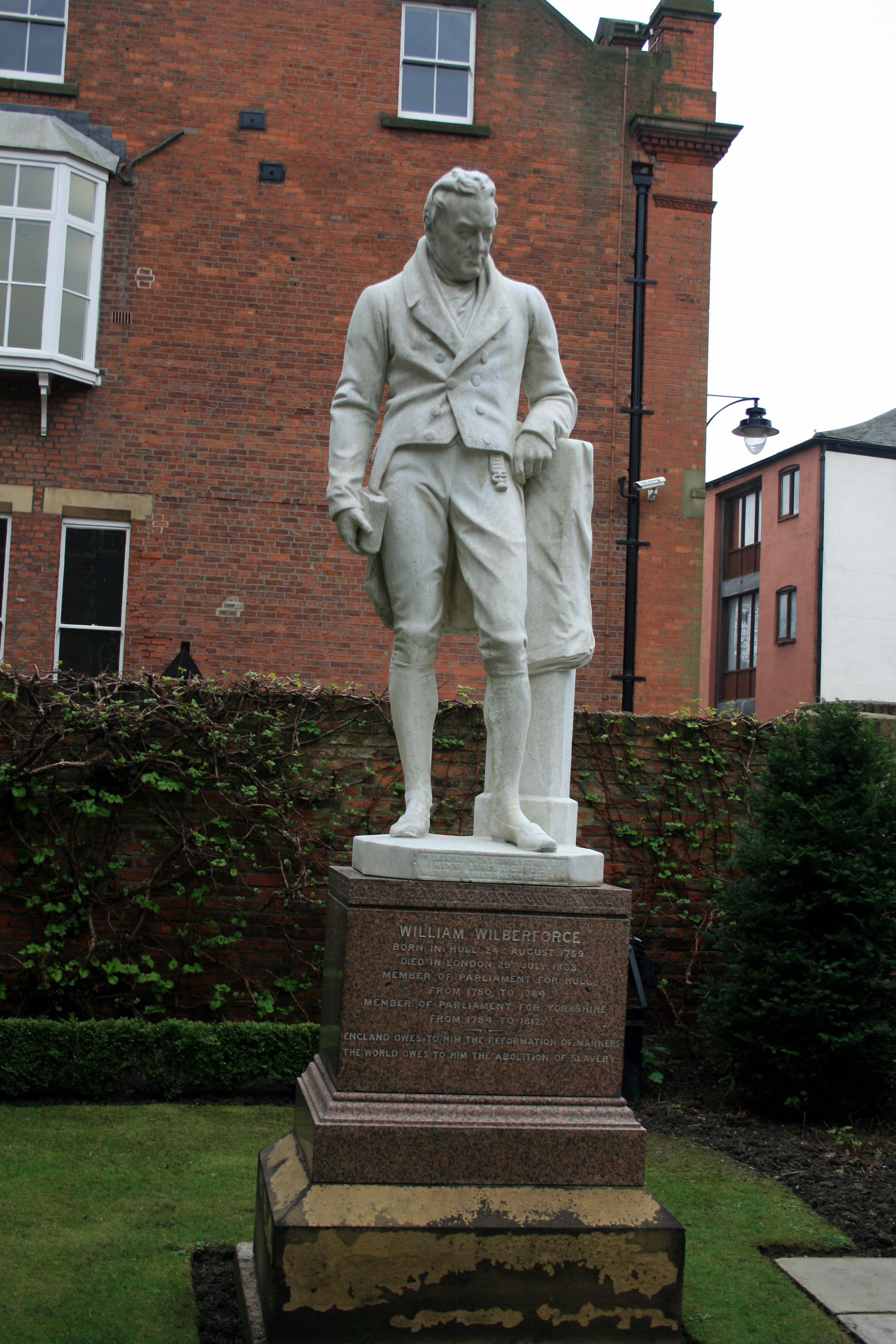 Photo's of Hull